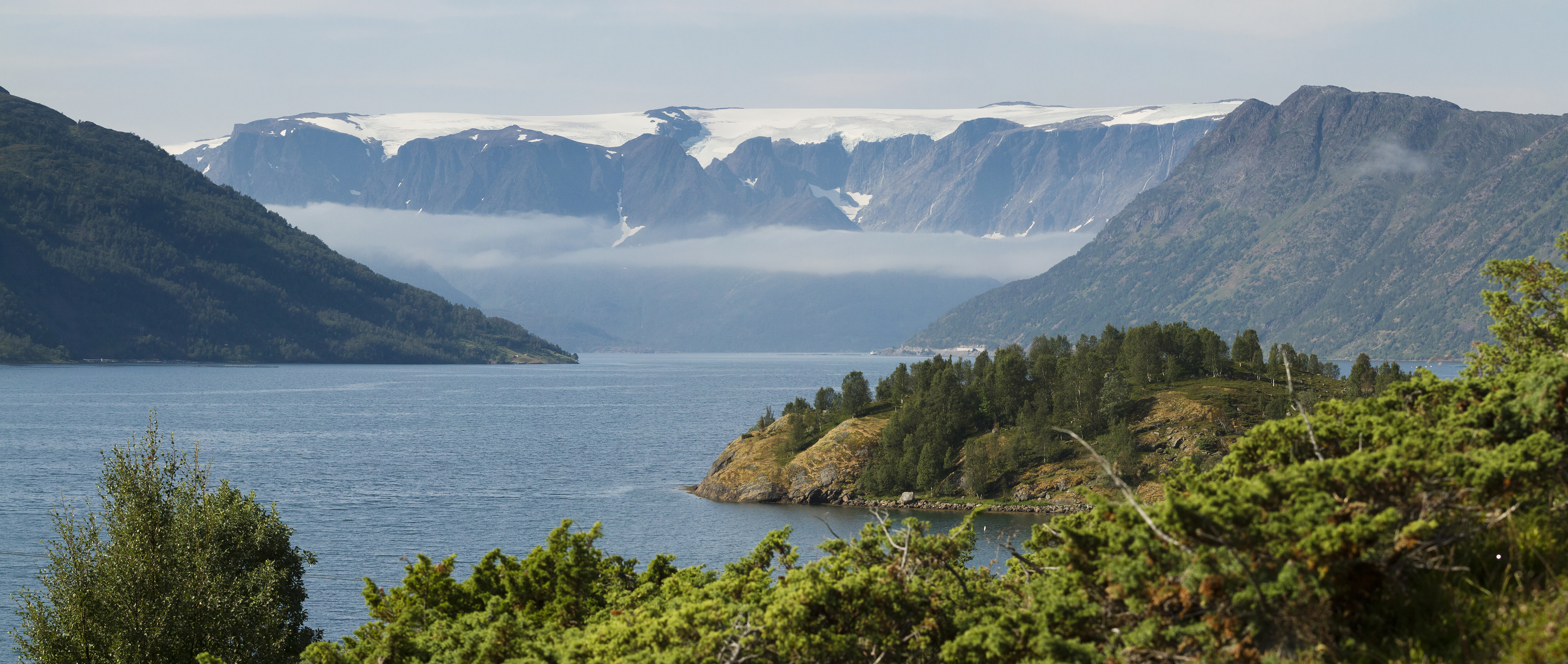 Øksfjordjøkelen as seen over Øksfjorden from Hamnebukta, Finnmark, Norway in 2014 August. The cape on the front right is Hamnbuktklubben.